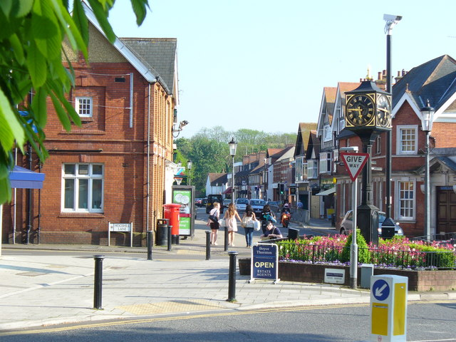 High Street, Cobham, near to Cobham, Surrey, Great Britain. Beyond the Millennium Clock is the main shopping street of this upmarket Surrey village. Many of the shops are still independently owned.